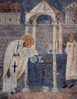 Master of the Sophien Cathedral of Ohrid, Frescos, 11th Century